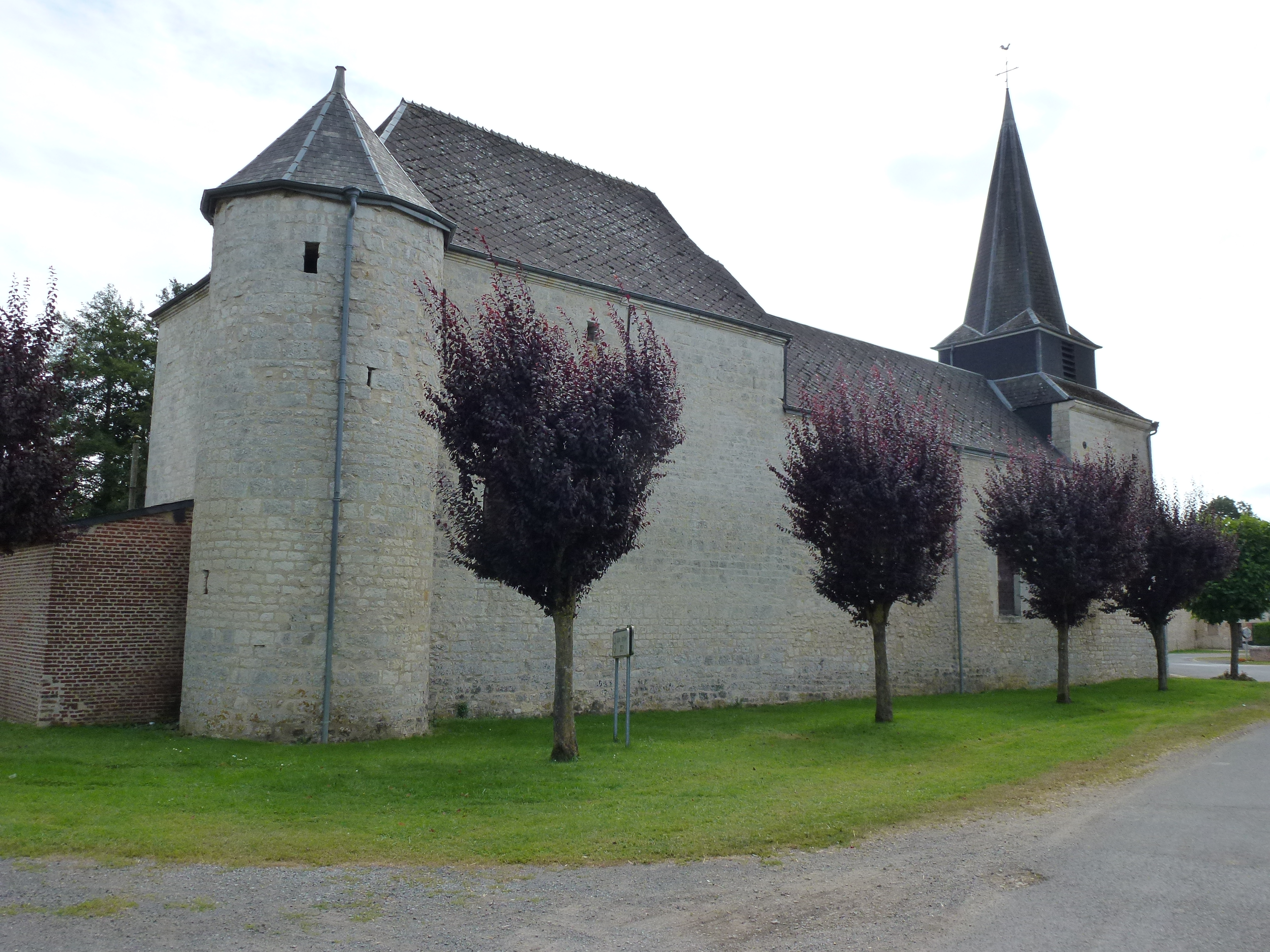 Bossus-lès-Rumigny (Ardennes) Église Saint-Martin, chevet